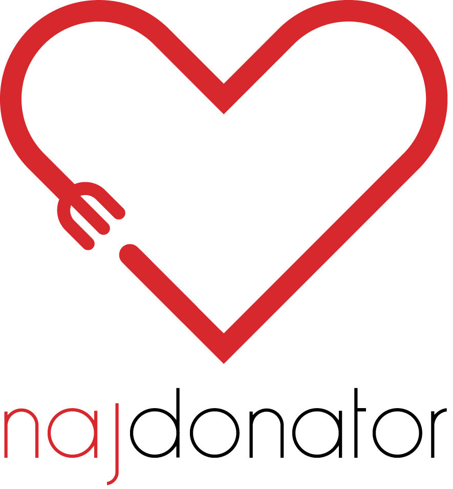 Rad Mirka Tivanovca, učenika gimnazije Vukovar, izabran na natječaju.